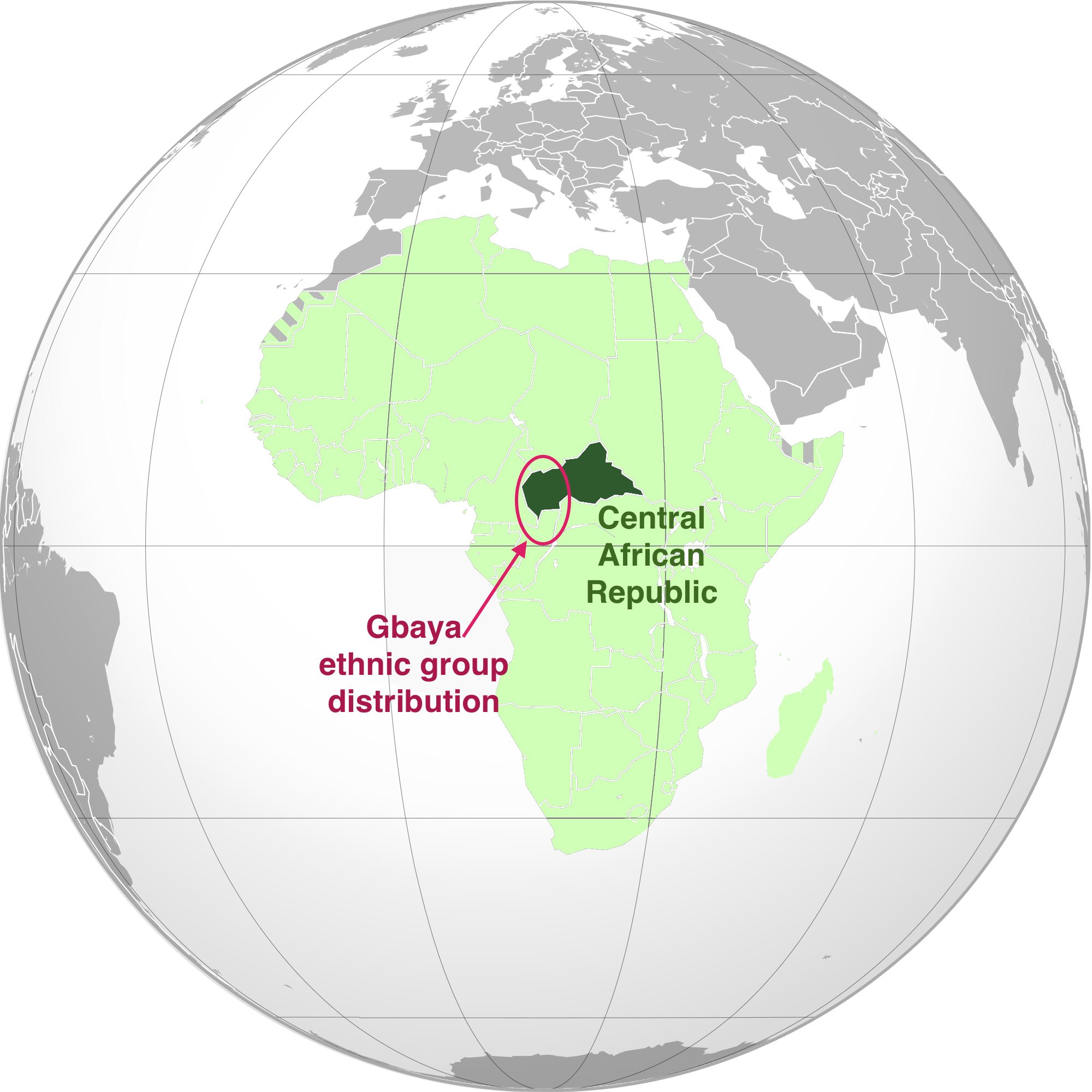 This is a derivative work on the following image available on wikimedia, under creative commons license CAR in au.png